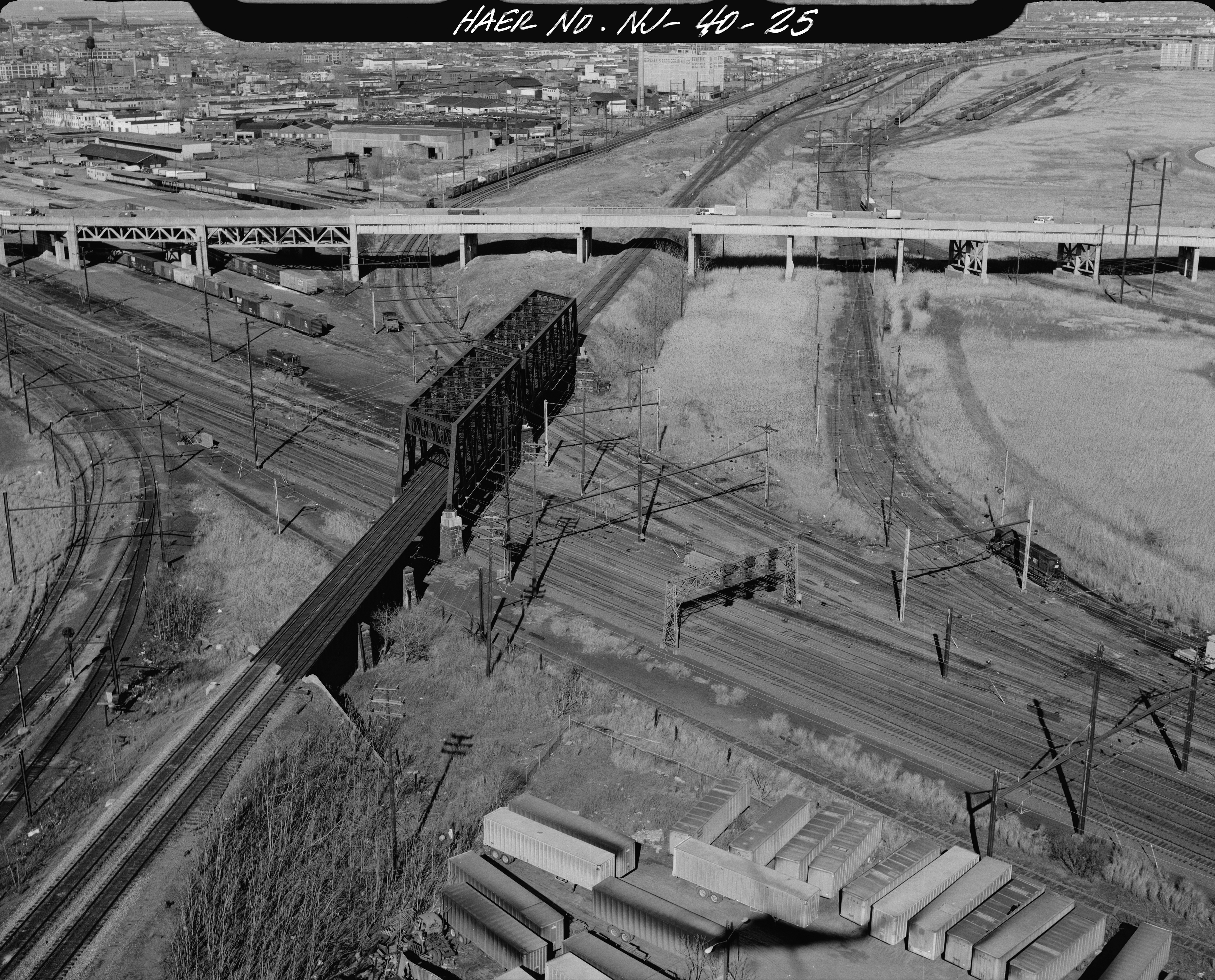 View of Lehigh Valley Railroad bridge, Newark, New Jersey, over the Northeast Corridor rail line. Aerial photo at Hunter Connection (bottom left) and Oak Island Yard in the distance (top right).